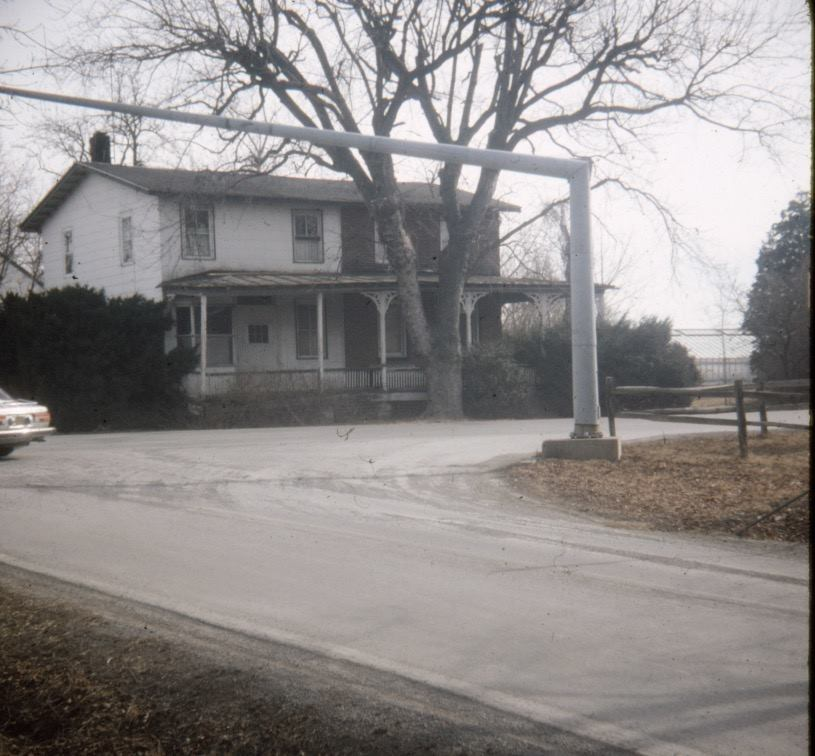 This is the Willowdale Post office and general store in Willowdale, it was later demolished when the area was redeveloped